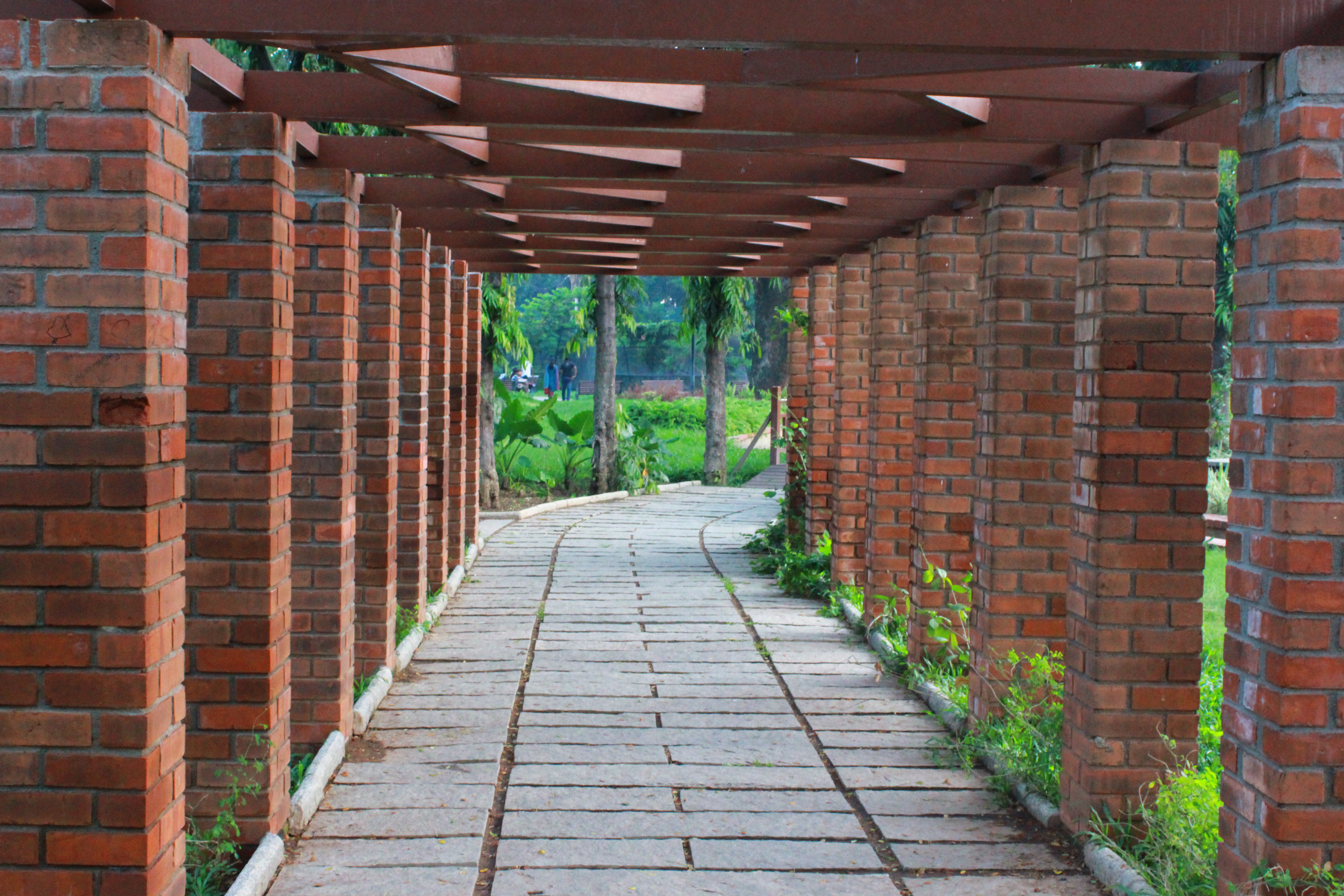 Picture of the walkway in Semmozhi poonga, Chennai